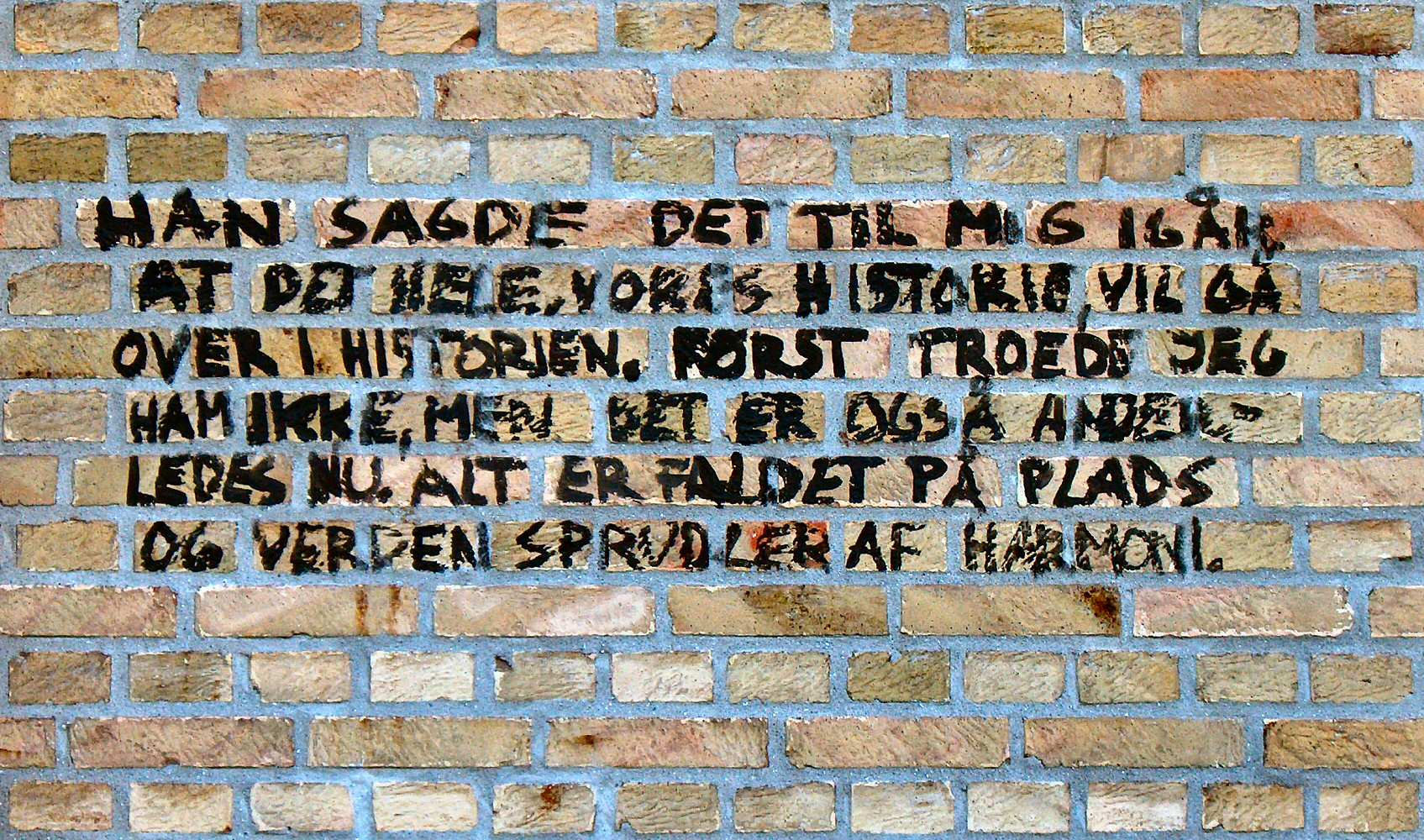 Poem on brick wall in Århus, Denmark. Street art